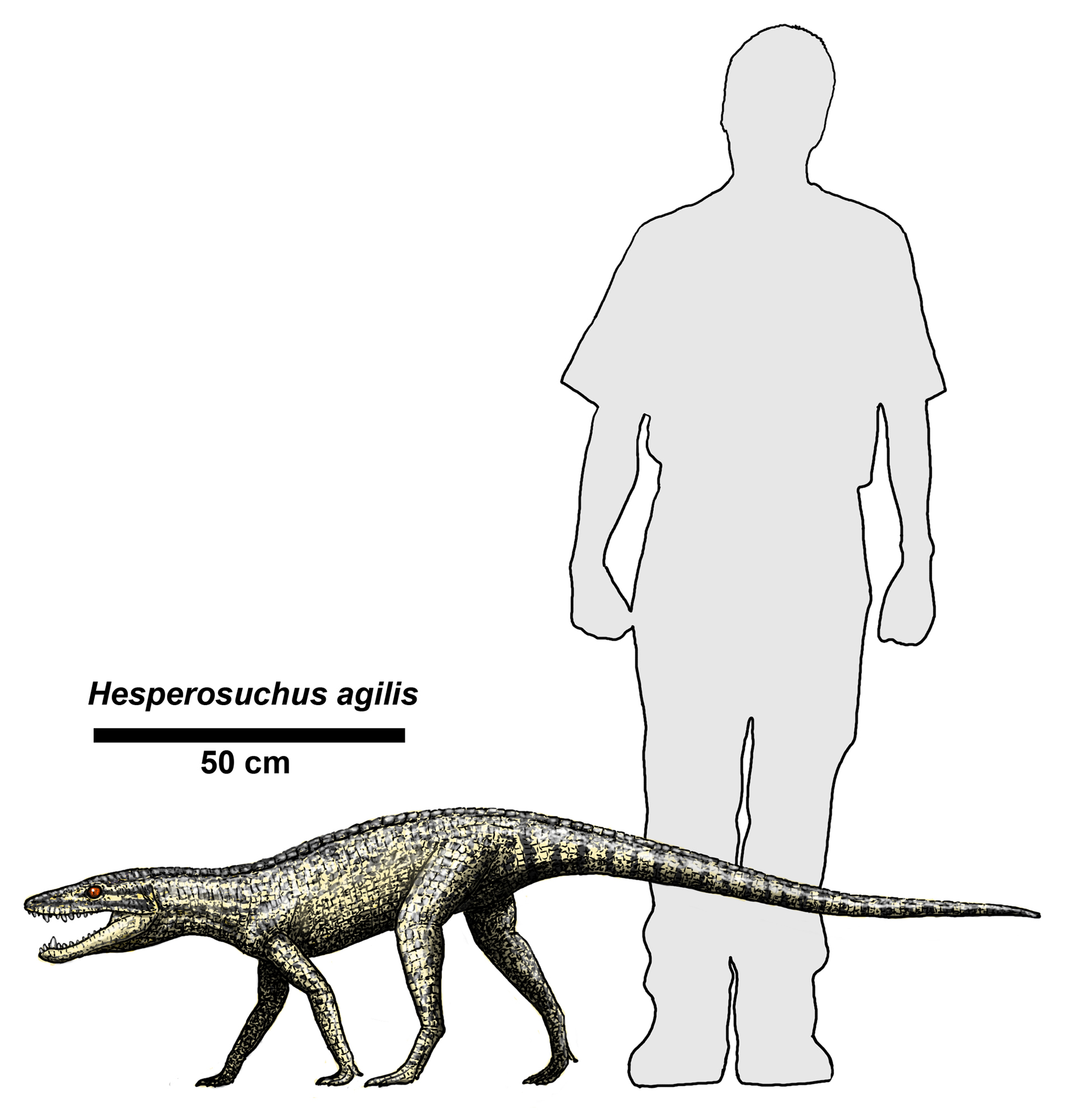 Hesperosuchus agilis compared to a human.